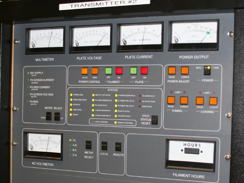 WDET FM transmitter made by Continental Electronics